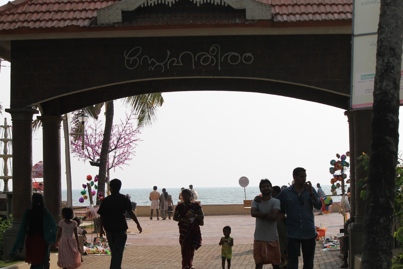 Snehatheeram Beach Thrissur